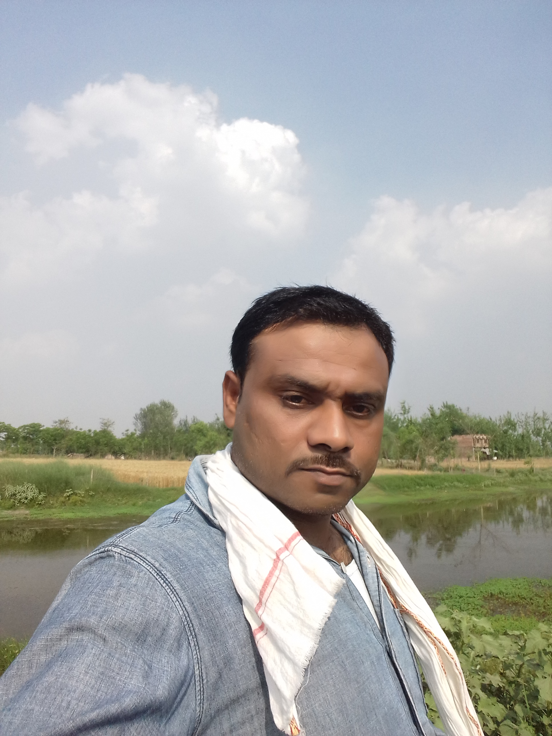 Faiz Bahraichi is Urdu Poet of Bahraich